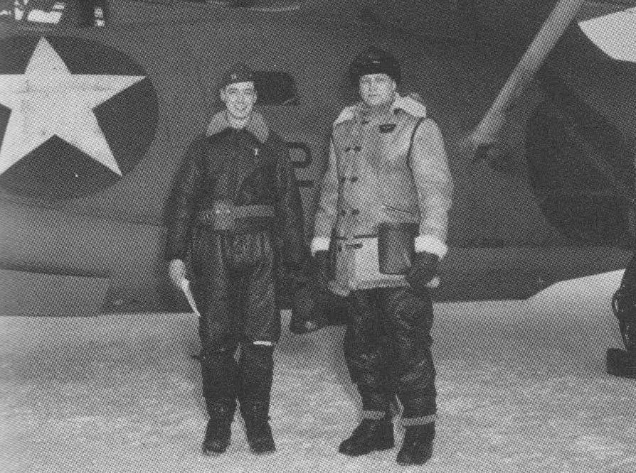 US Navy Lieutenant William Thies (left), pilot of a Consolidated PBY-5A Catalina of patrol squadron VP-41, Fleet Air Wing 4, in Alaska during the Aleutian Islands Campaign in 1942. Thies discovered the Akutan Zero while on patrol on 10 July 1942. To the right stands Captain Leslie Gehres, commanding officer FAW 4.